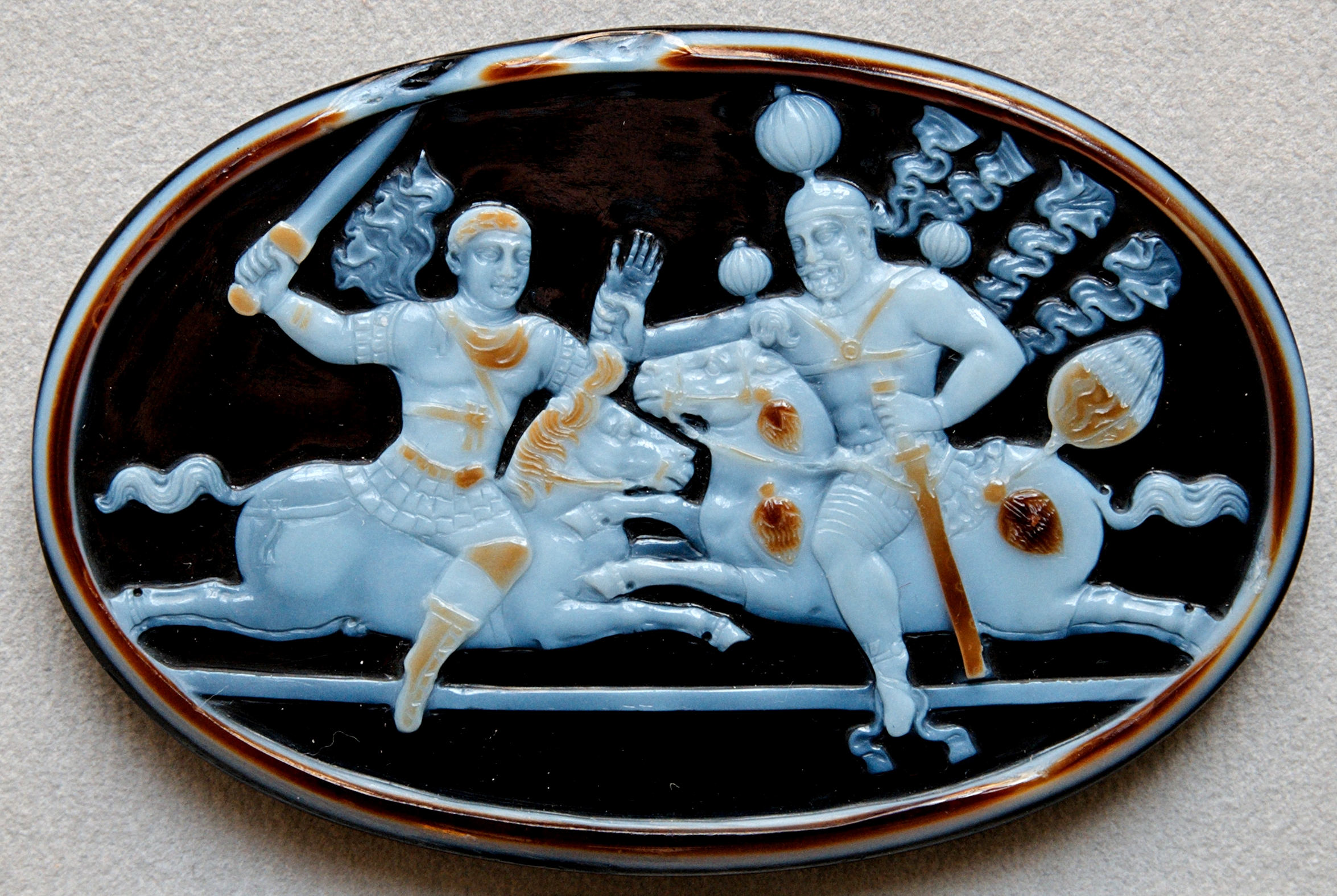 Cameo of Shapur I humiliating Emperor Valerianus.